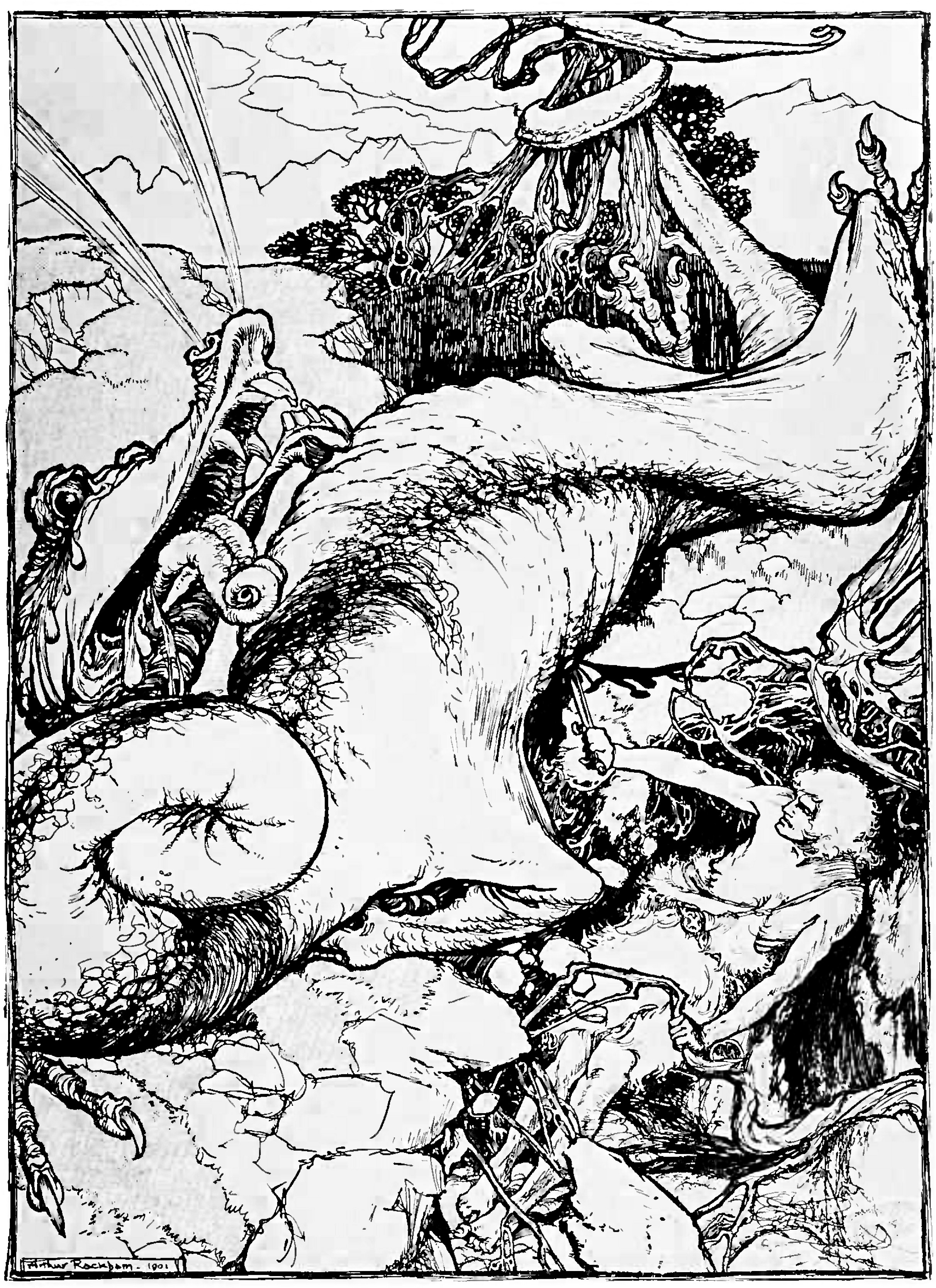 "Sigurd pierced him with his sword, and he died" by Arthur Rackham. The legendary Norse hero Sigurd kills the dragon Fafnir.